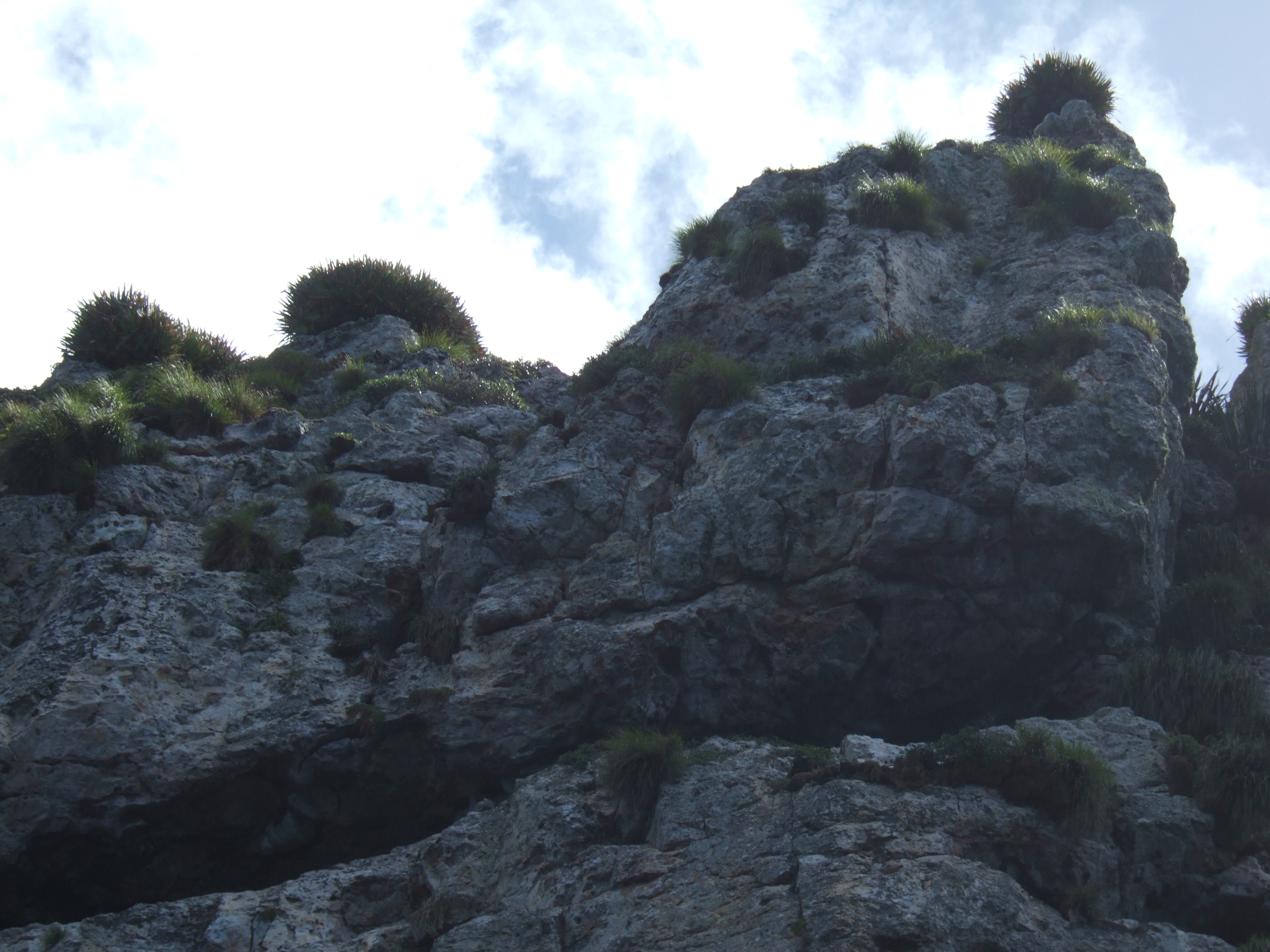 Xeronema callistemon growing on one of the Poor Knights Islands (the large bushy plants on the skyline)